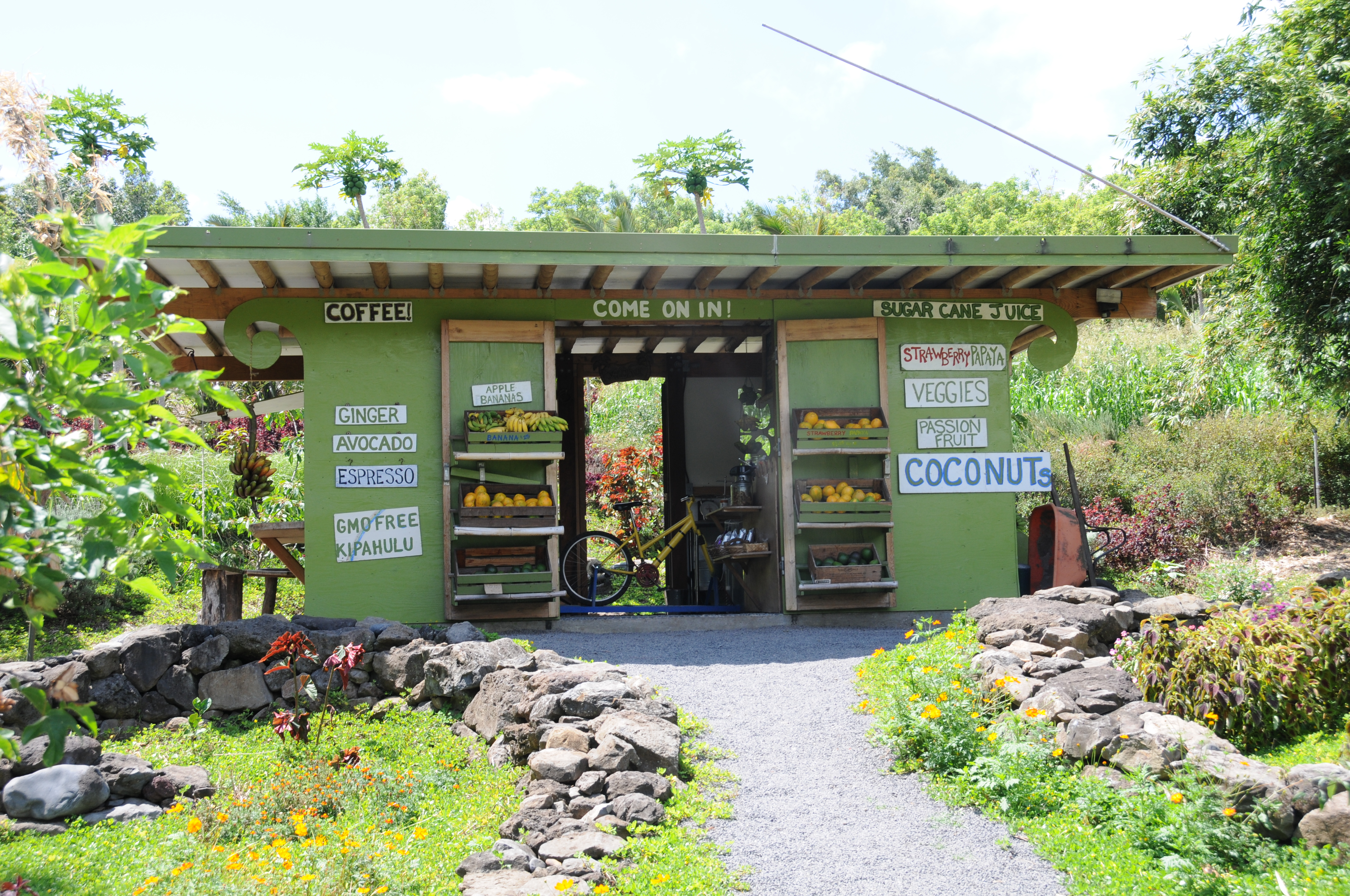 This is the image of the fruit stand intended to illustrate Kipahulu, Maui article.